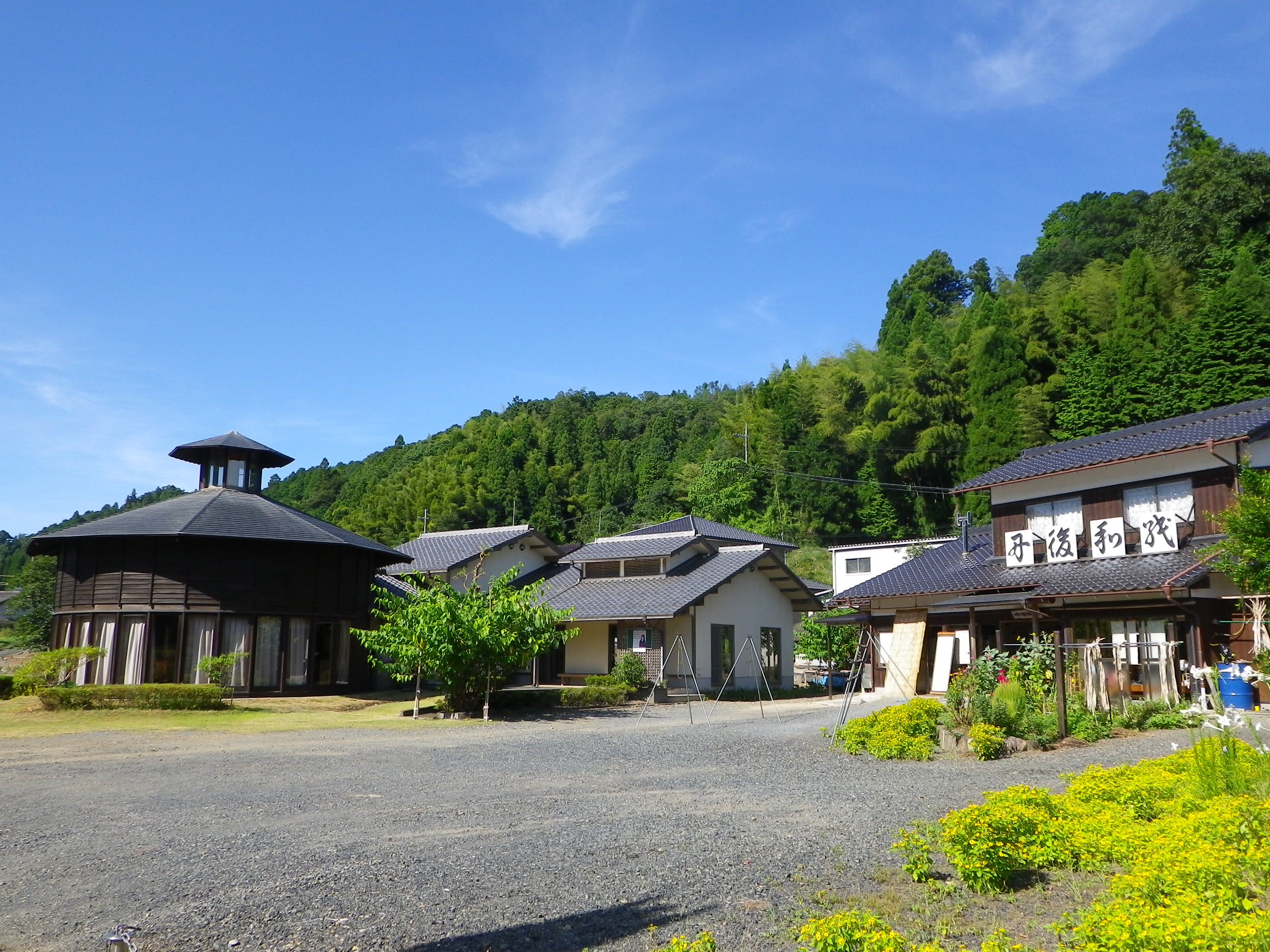 Oe town washidenshokan musium